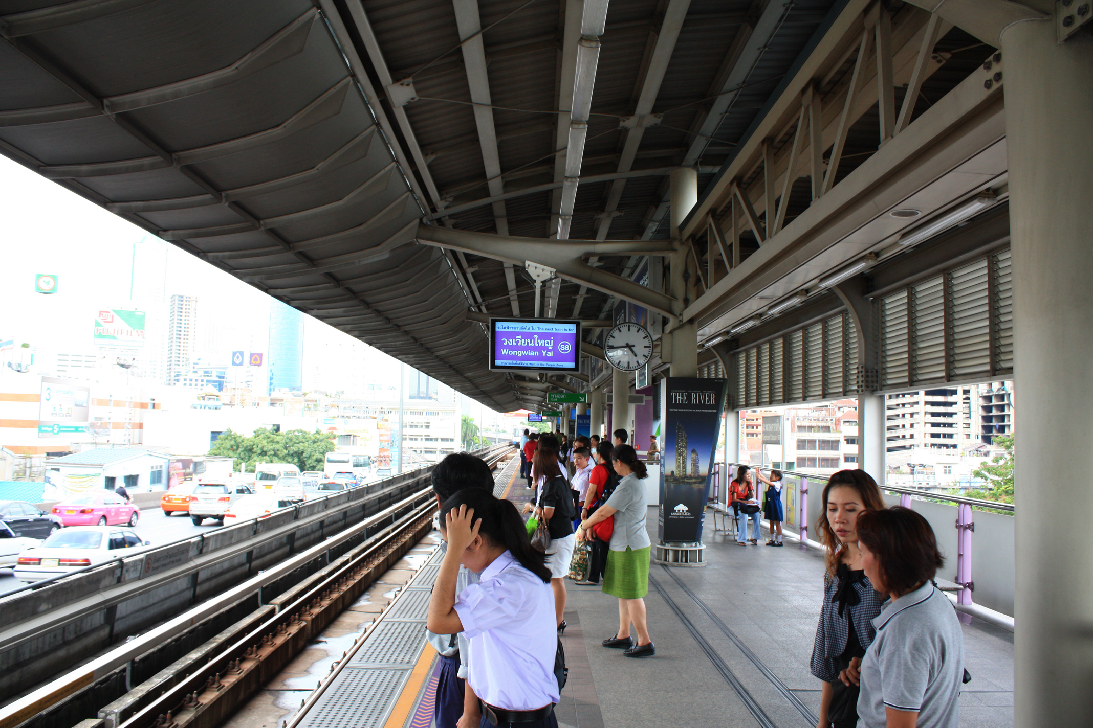 BTS Saphan Taksin Station, Bangkok, Thailand.